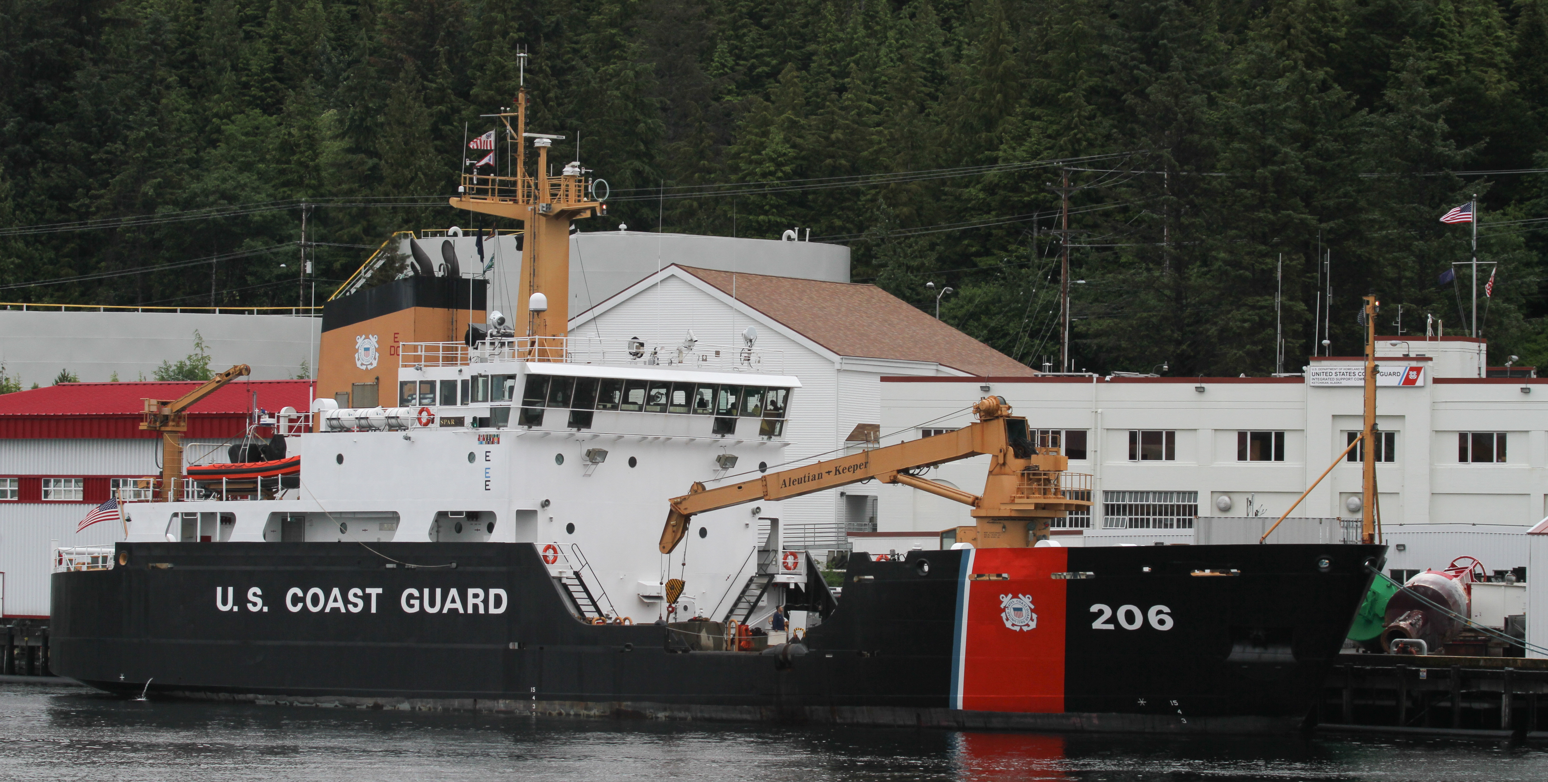 USCGC Spar (WLB-206) docked at Coast Guard Base Ketchikan in 2011